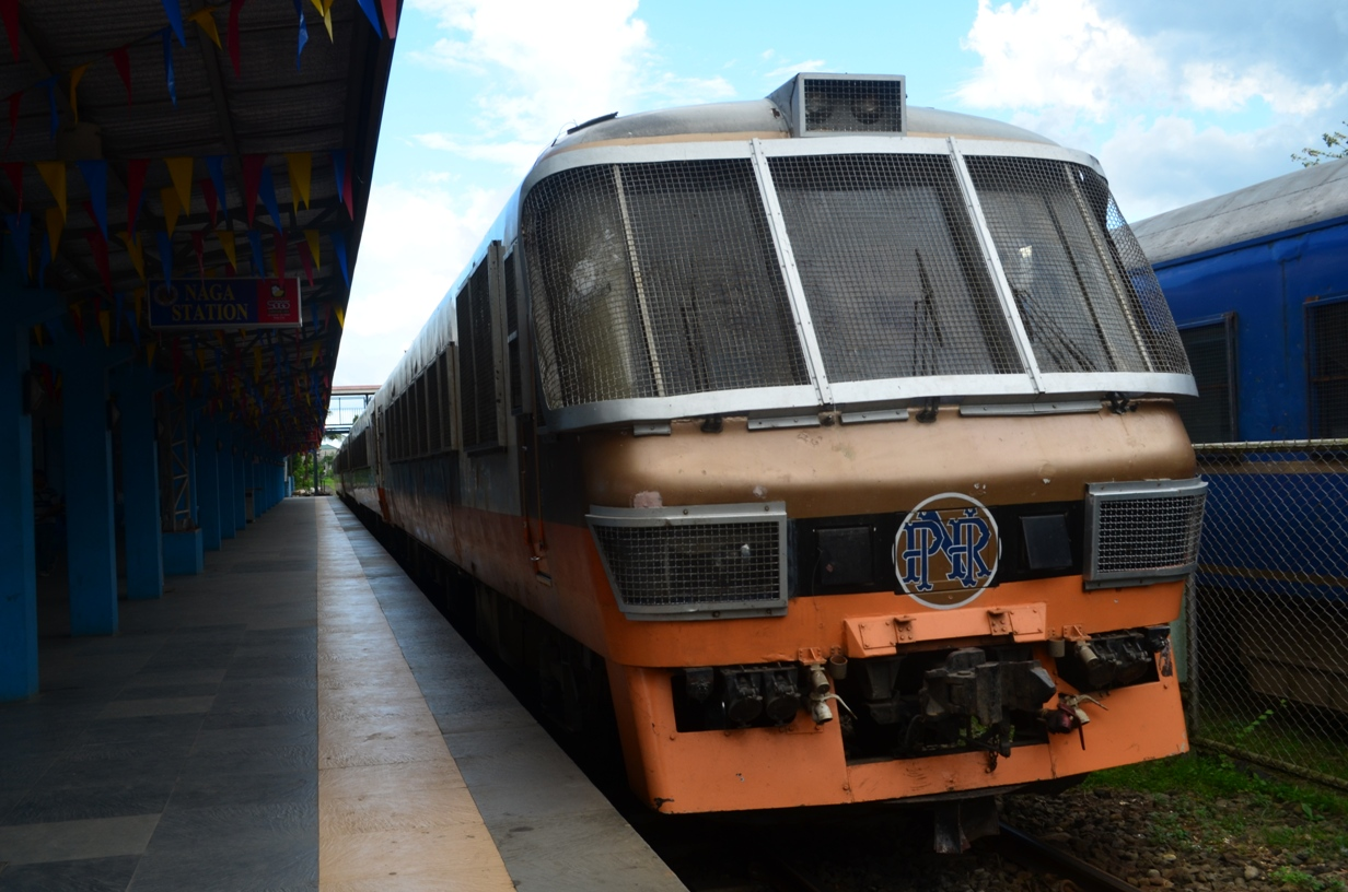 Philippine Mational Railways